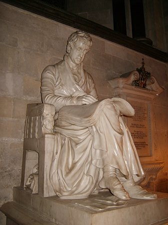 Monument to Sir Richard Colt Hoare in Salisbury Cathedral, Wiltshire, England.